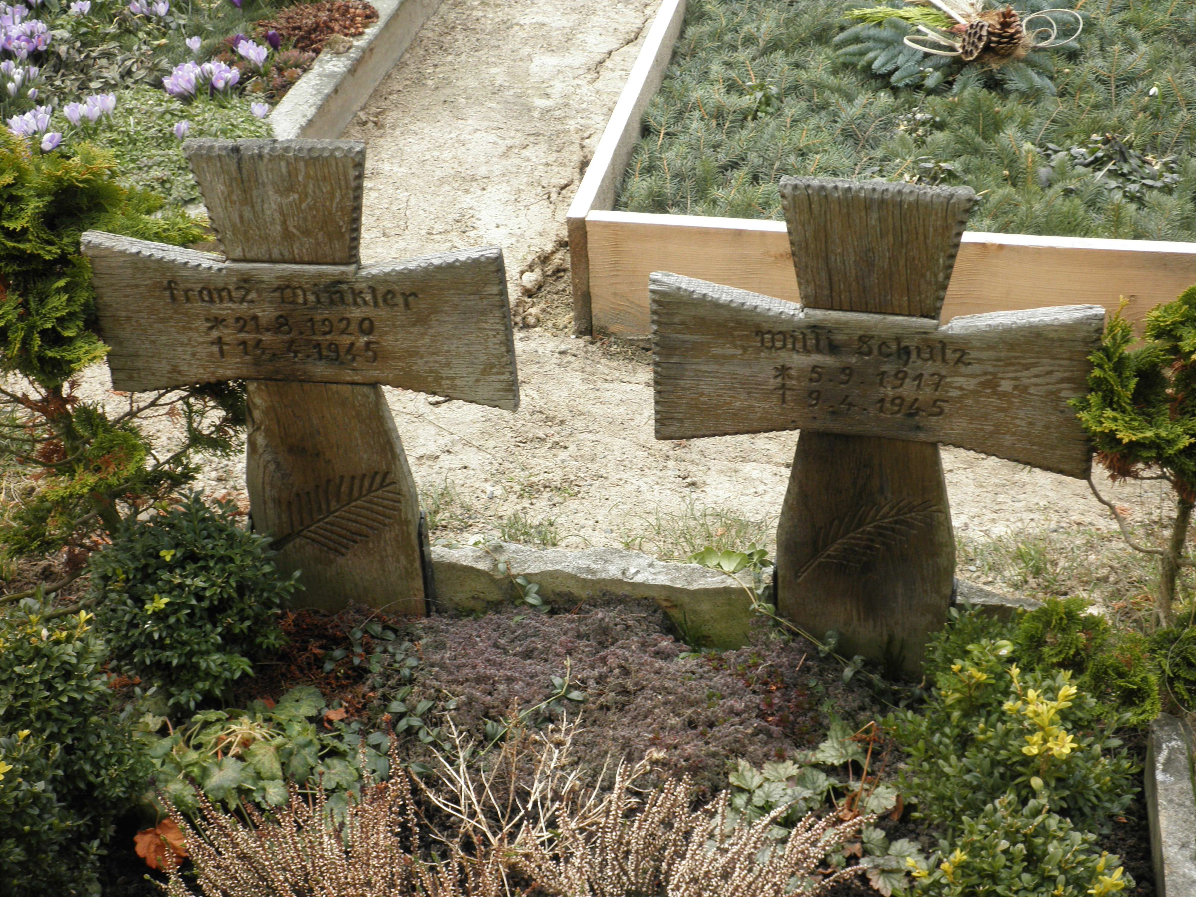 Soldiers Graves in Lindig in Thuringia